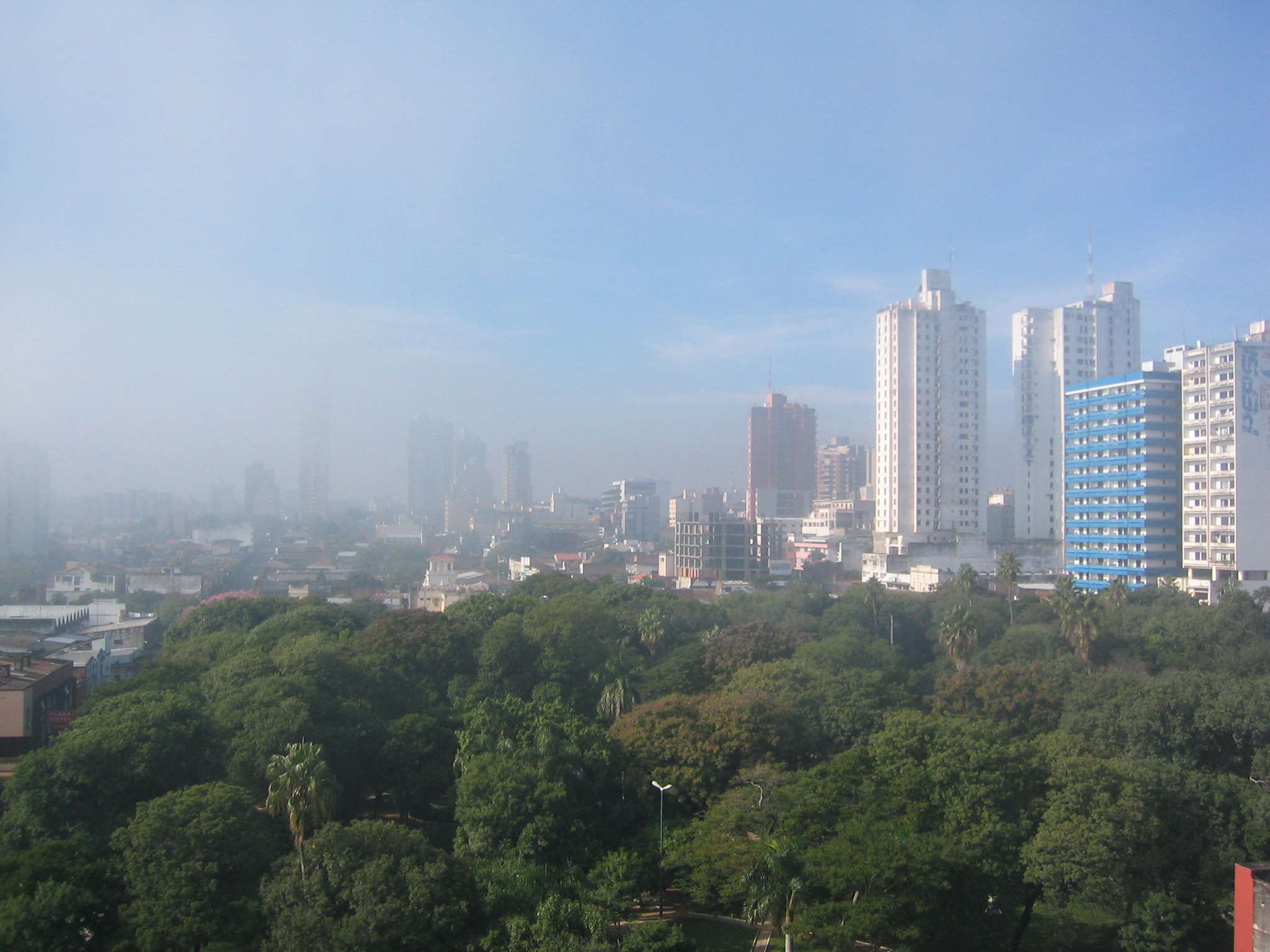 Buildings in Asuncion, Paraguay